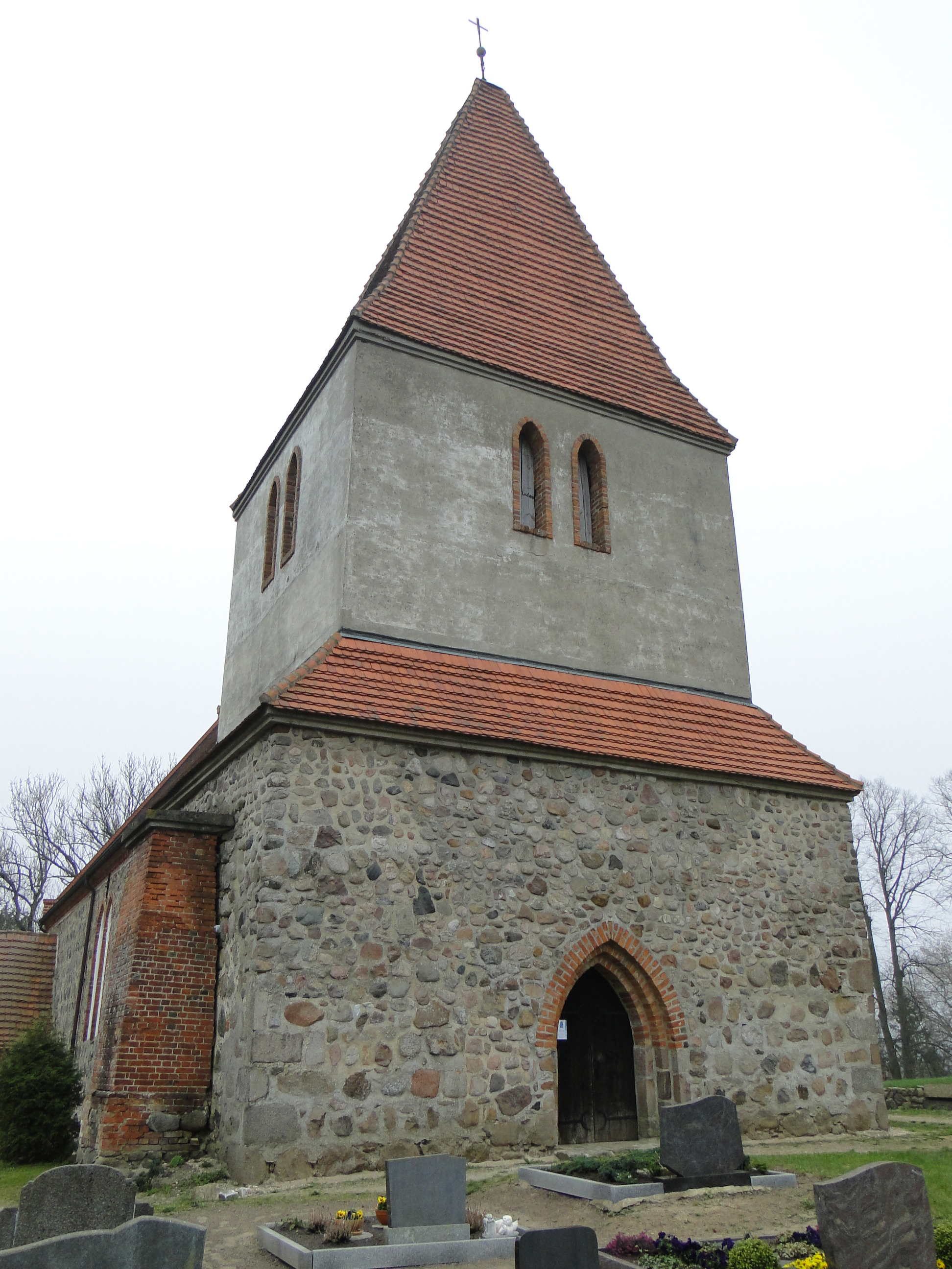 Church in Zehna, district Rostock, Mecklenburg-Vorpommern, Germany